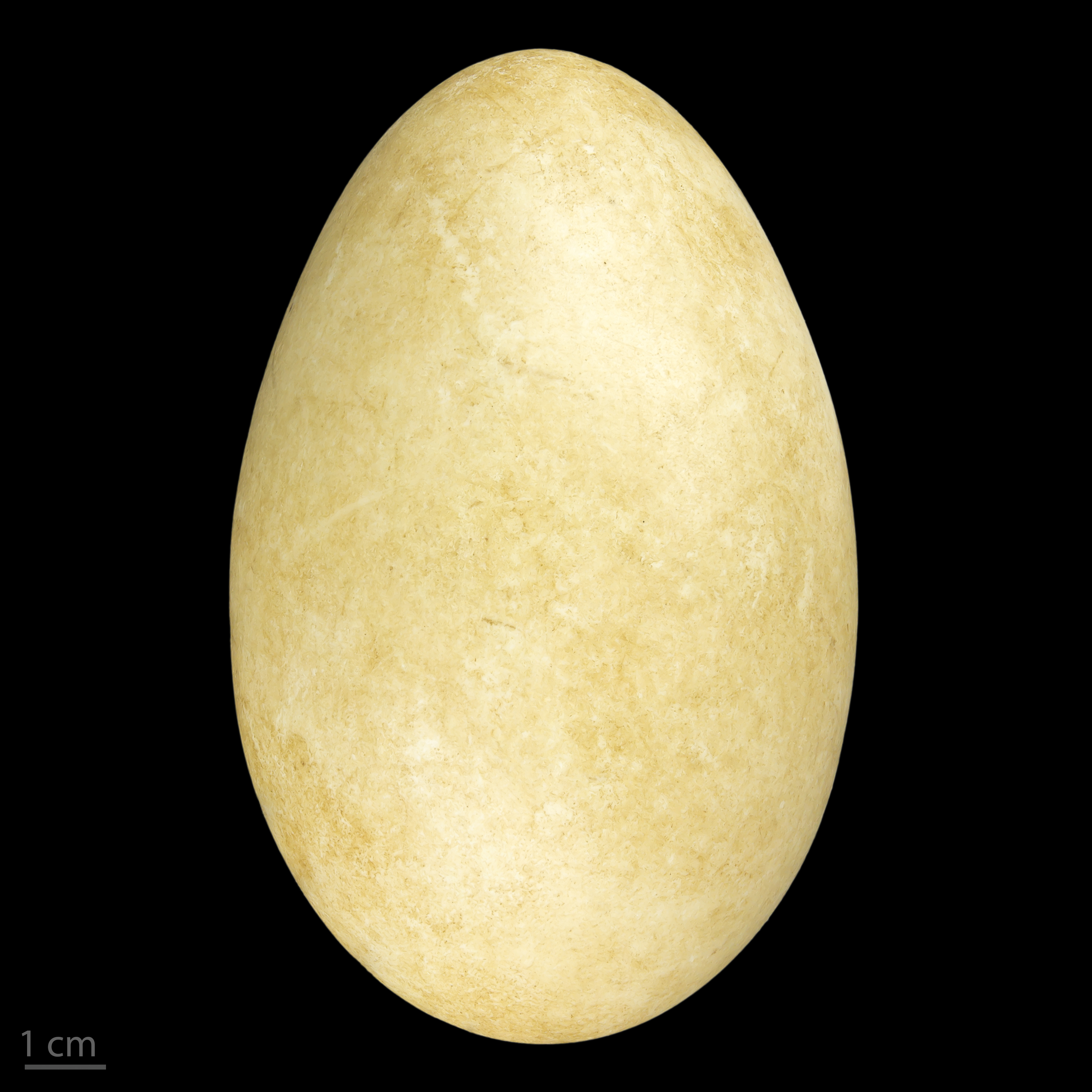 Egg of whooper swan Collection of Jacques Perrin de Brichambaut.